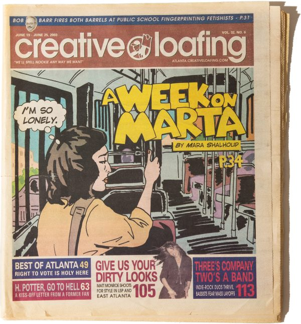 This one of the early 2000s editions of Creative Loafing about riding MARTA, uploaded by Debby Eason.